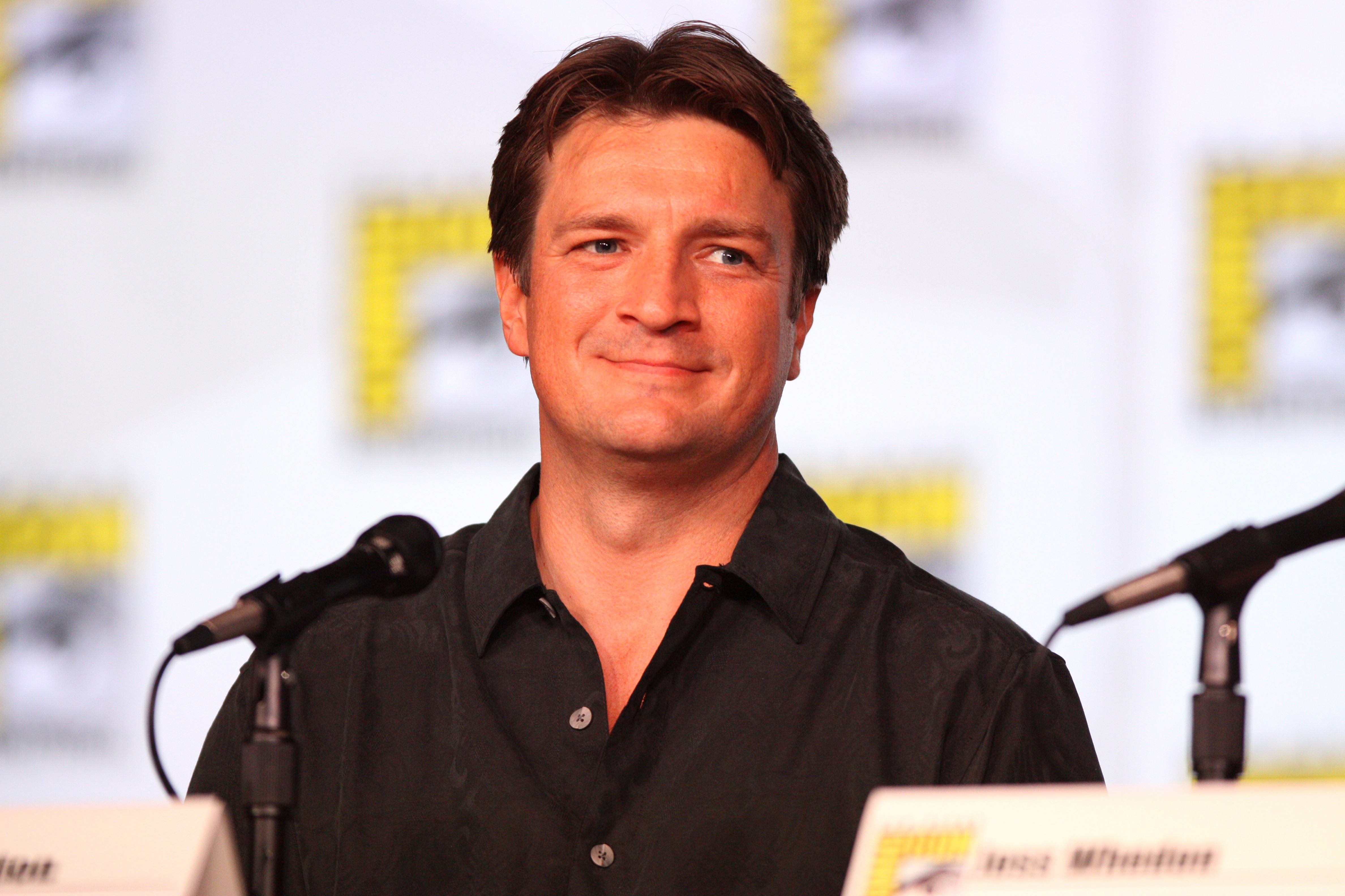 Nathan Fillion speaking at the 2012 San Diego Comic-Con International in San Diego, California.